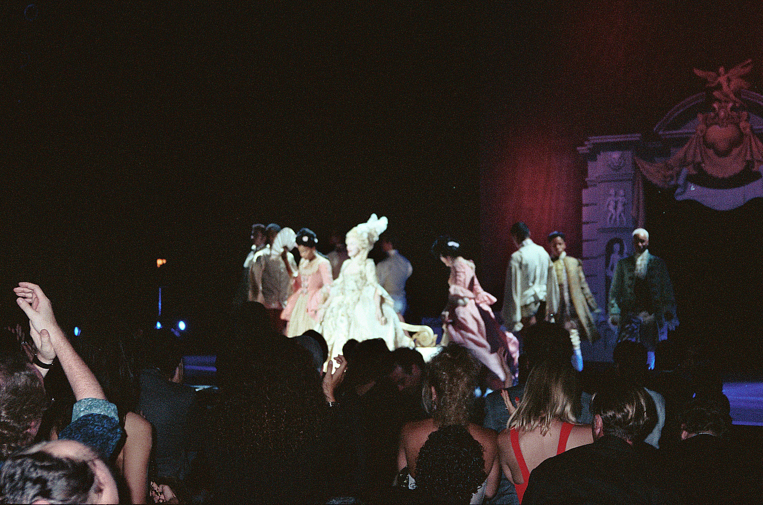 Madonna performing "VOGUE" on stage at the Wiltern Theater, Los Angeles - September 7, 1990 - as part of an APLA (AIDS Project Los Angeles) benefit.